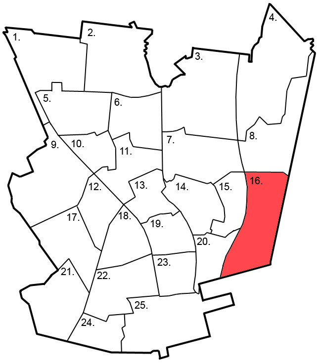 A map of neighbourhoods in the city of Järvenpää showing the location of Mikonkorpi in red. The names of the other individual neighbourhoods are listed below. Finnish: Kartta Järvenpään kaupunginosista, Mikonkorven kaupunginosa punaisella. Kaikkien kaupunginosien nimet ovat alla olevassa listassa. 1. Wärtsilä 2. Nummenkylä 3. Pietilä 4. Haarajoki 5. Jamppa 6. Peltola 7. Isokytö 8. Mylly 9. Saunakallio 10. Sorto 11. Pajala 12. Loutti 13. Pöytäalho 14. Terhola 15. Satumetsä 16. Mikonkorpi 17. Kaakkola 18. Keskus 19. Kinnari 20. Satukallio 21. Vanhakylä 22. Lepola 23. Kyrölä 24. Terioja 25. Ristinummi